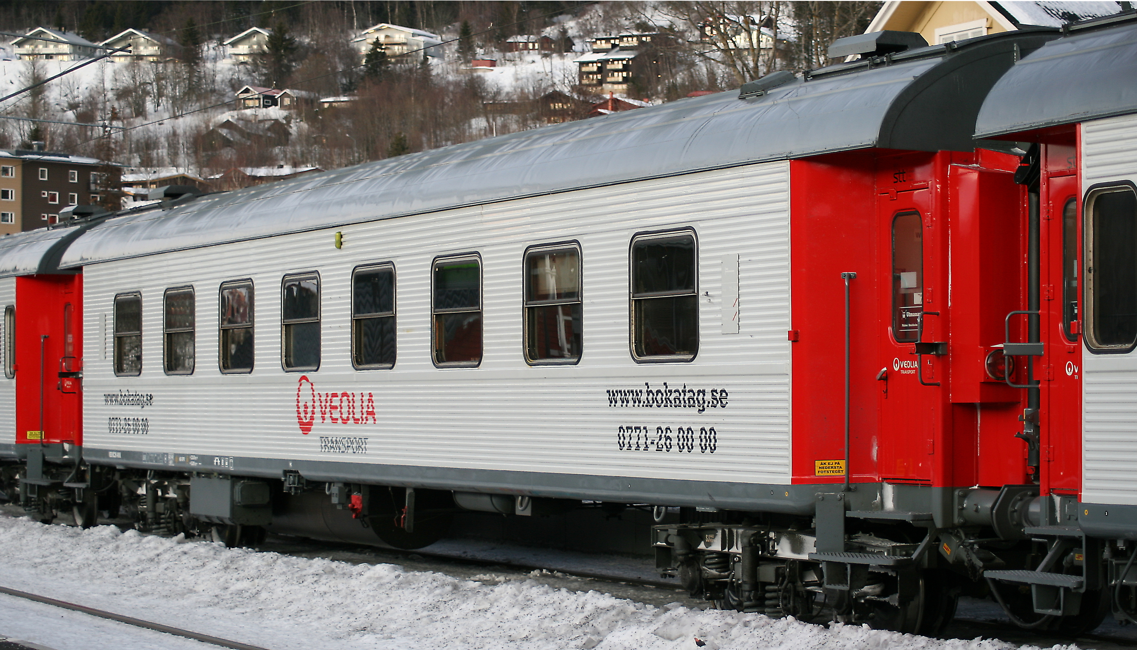 A Veolia BC2 couchette car in Åre